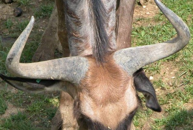 Horns of a blue wildebeest